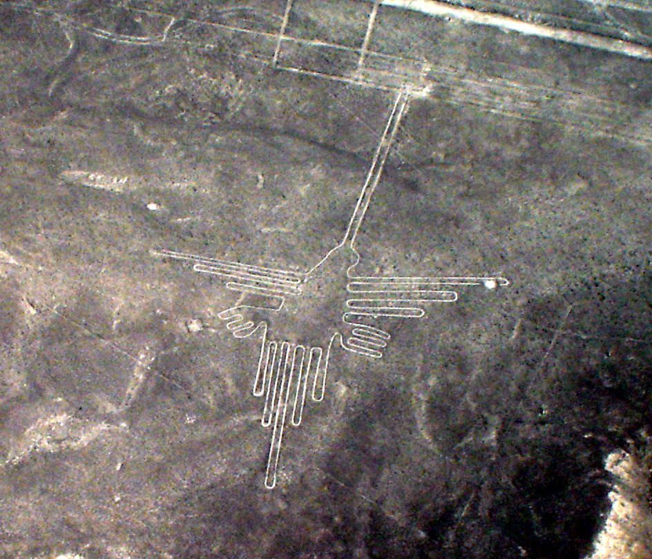 Nazca lines in Peru with high contrast image